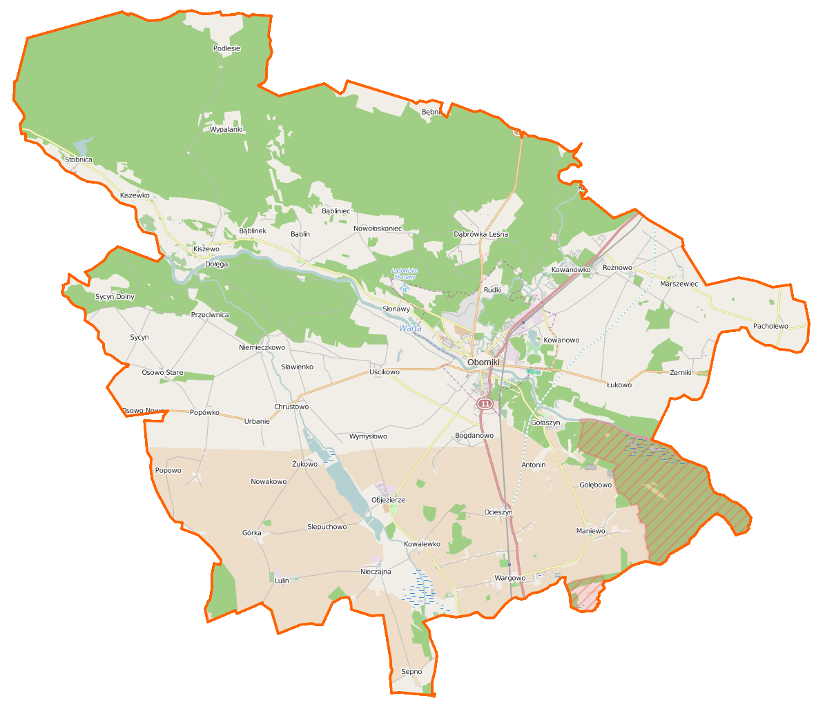 Map of Gmina Oborniki, PolandThis map of Oborniki (gmina) was created from OpenStreetMap project data, collected by the community. This map may be incomplete, and may contain errors. Don't rely solely on it for navigation.